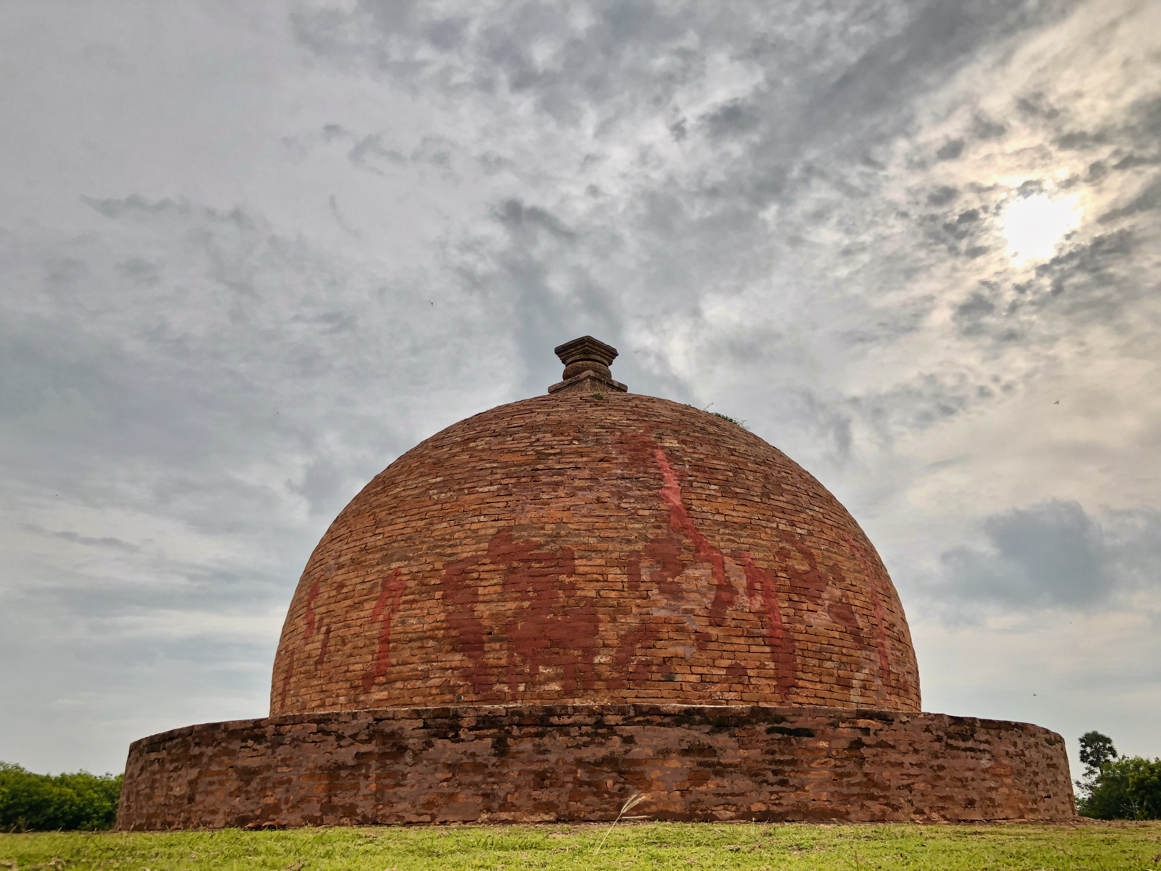 Thotlakonda Buddhist Complex is situated on a hill near Bheemunipatnam. The hill is about 128 metres (420 ft) above sea level and overlooks the sea. The Telugu name Toṭlakoṇḍa derived from the presence of a number of rock-cut cisterns hewn into the bedrock of the hillock.